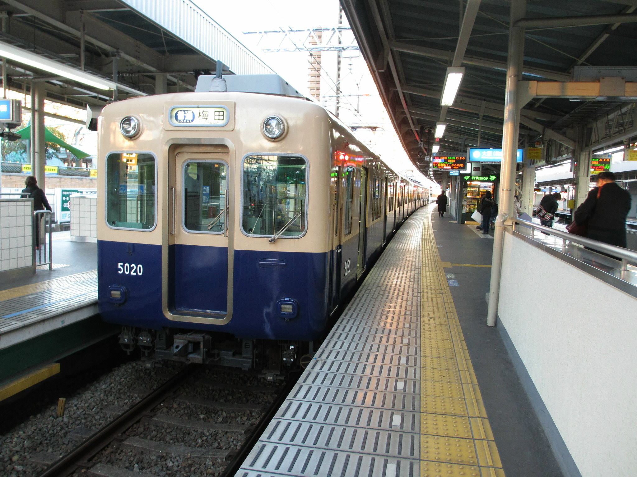 Hanshin Amagasaki Station platform